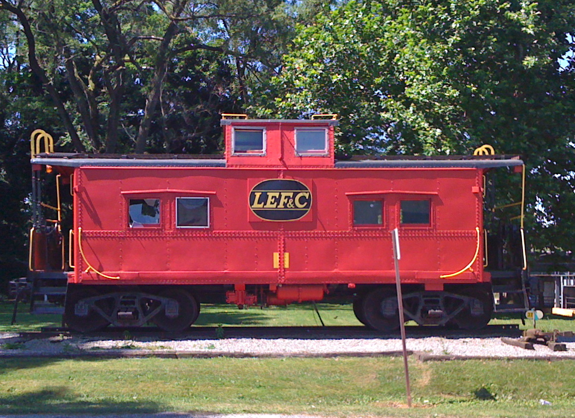 Train caboose in Mahoningtown's Darlington Park